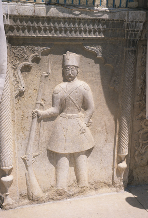 A relief of a Qajar soldier on one of the walls of the mansion of the Afif-Abad Garden. User writes "I am the photographer. Scanned from my slides."